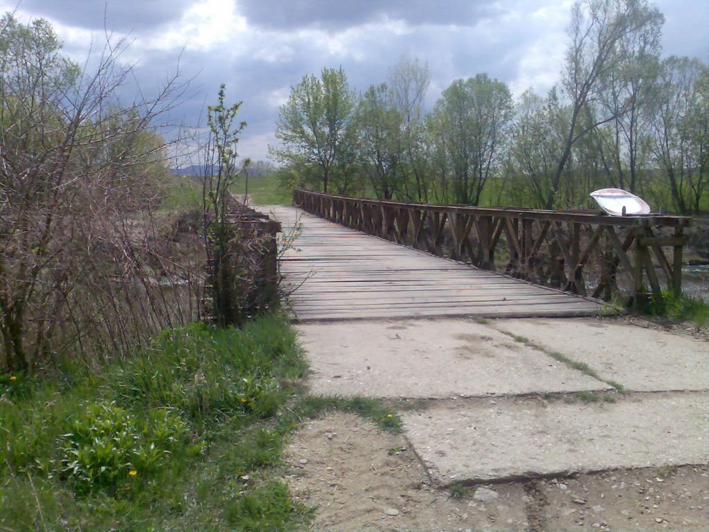 Rural brigde near Szete